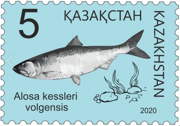 1227. Fauna.Red Book of Kazakhstan. Fish of Kazakhstan